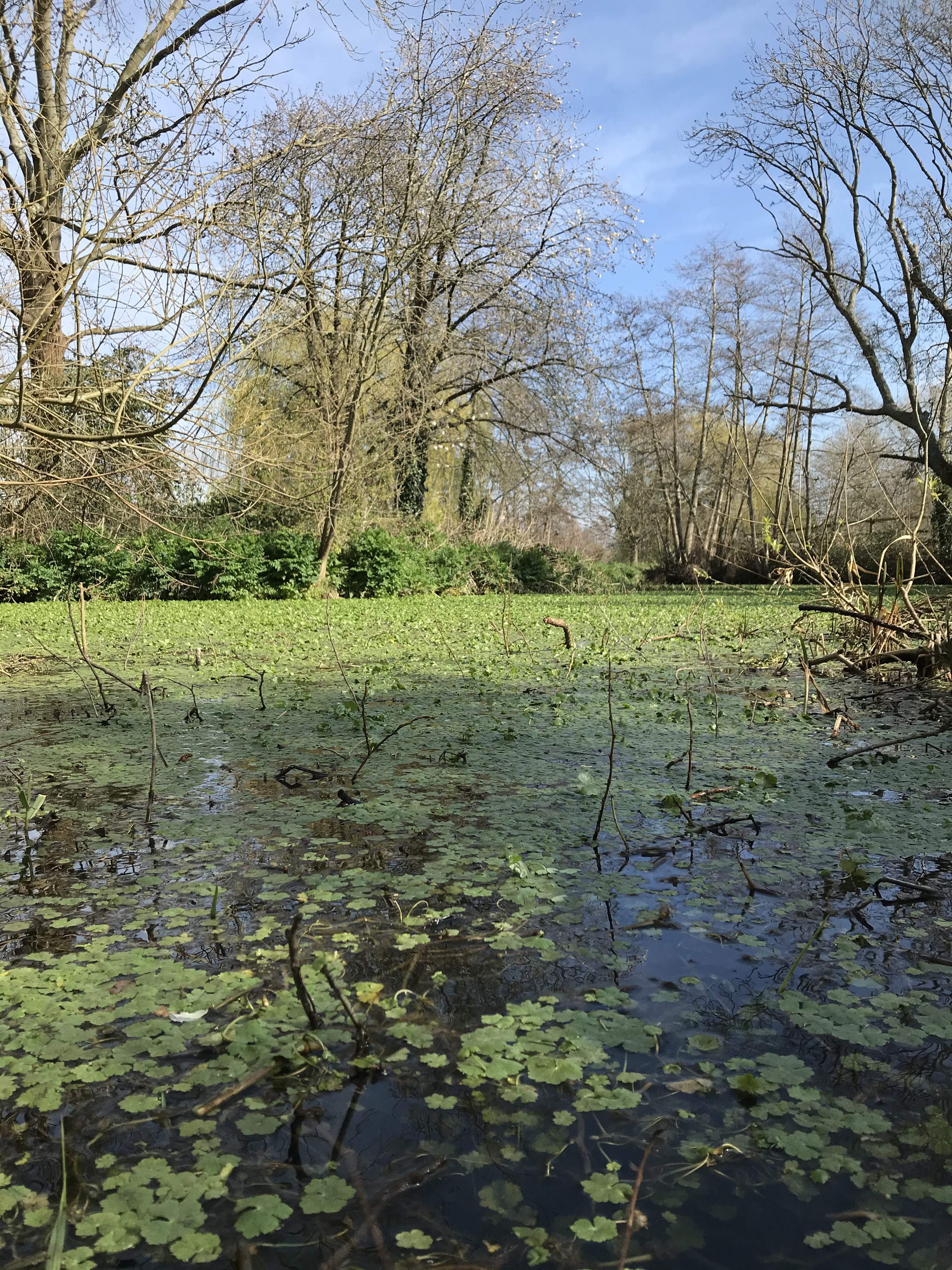 Emberside, showing trees and a river in Lower Green Esher